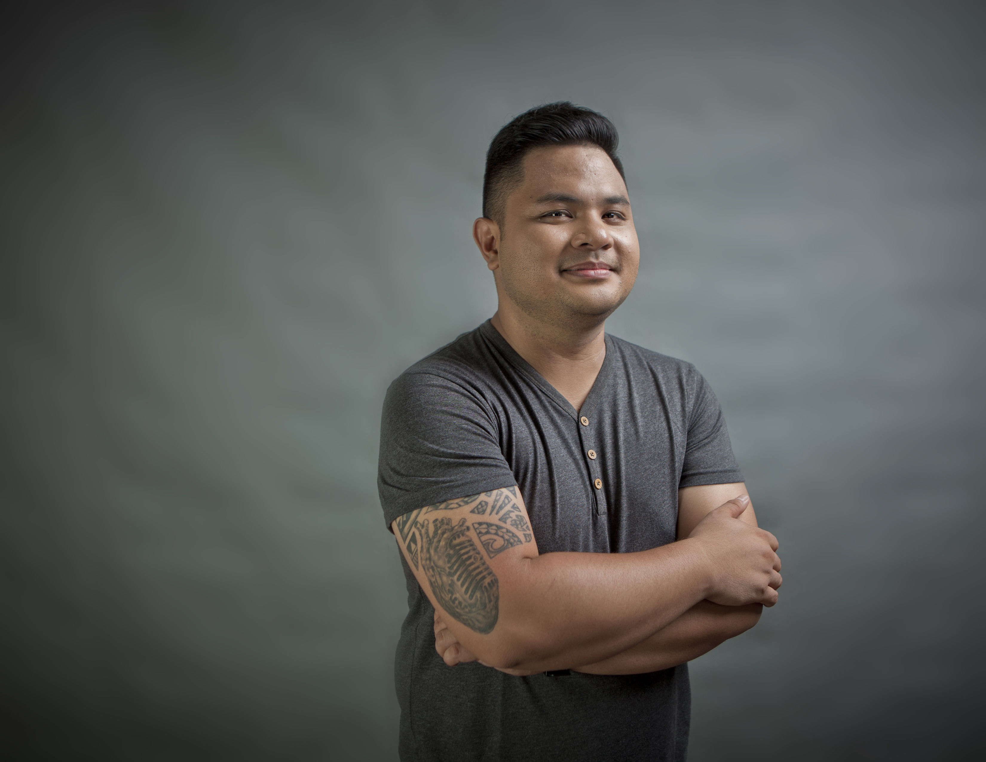 Davey Langit